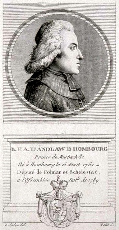 Benedikt Anton Friedrich von Andlau-Homburg (1761-1839), letzter Fürstabt von Kloster Murbach